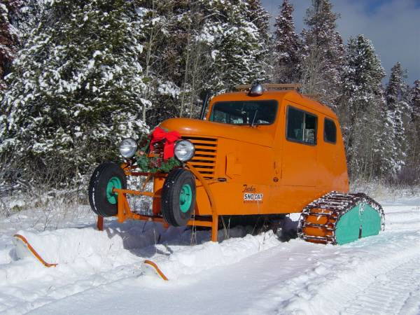 This is my photo, it is a picture of Mike's 1949 Tucker Sno-Cat taken on a day trip in Colorado.